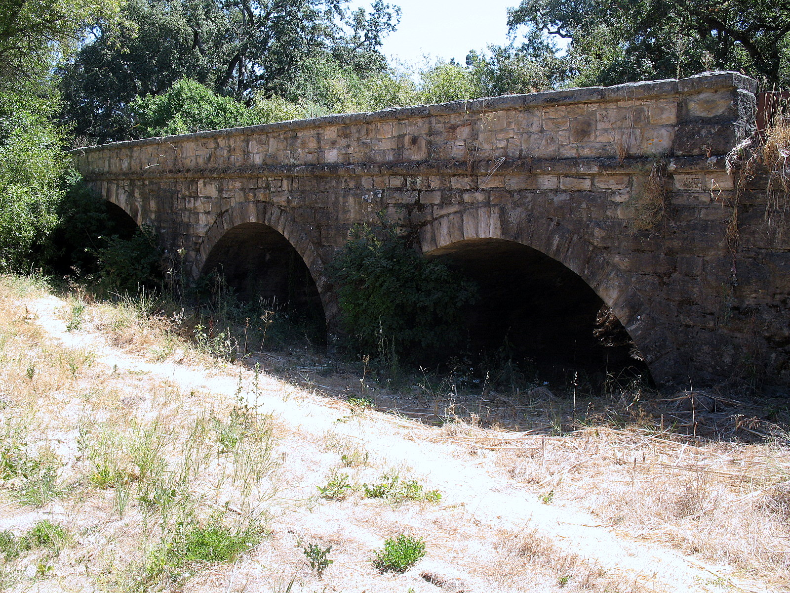 National Register of Historic Places listings in Napa County, California. Milliken Creek Bridge, Trancas St., Napa, California